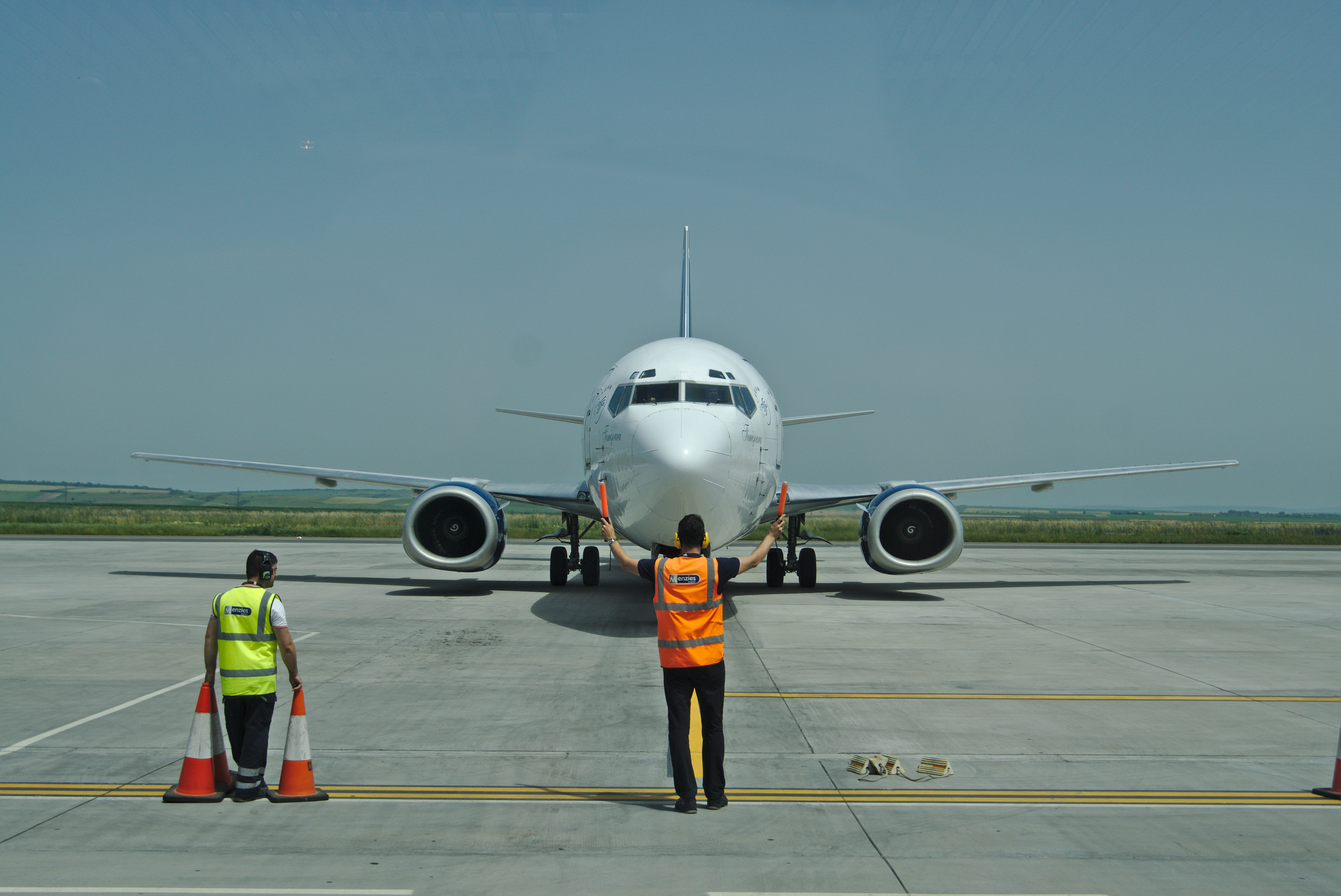 An aircraft marshaller directs the pilot to stop at Iași International Airport, Romania